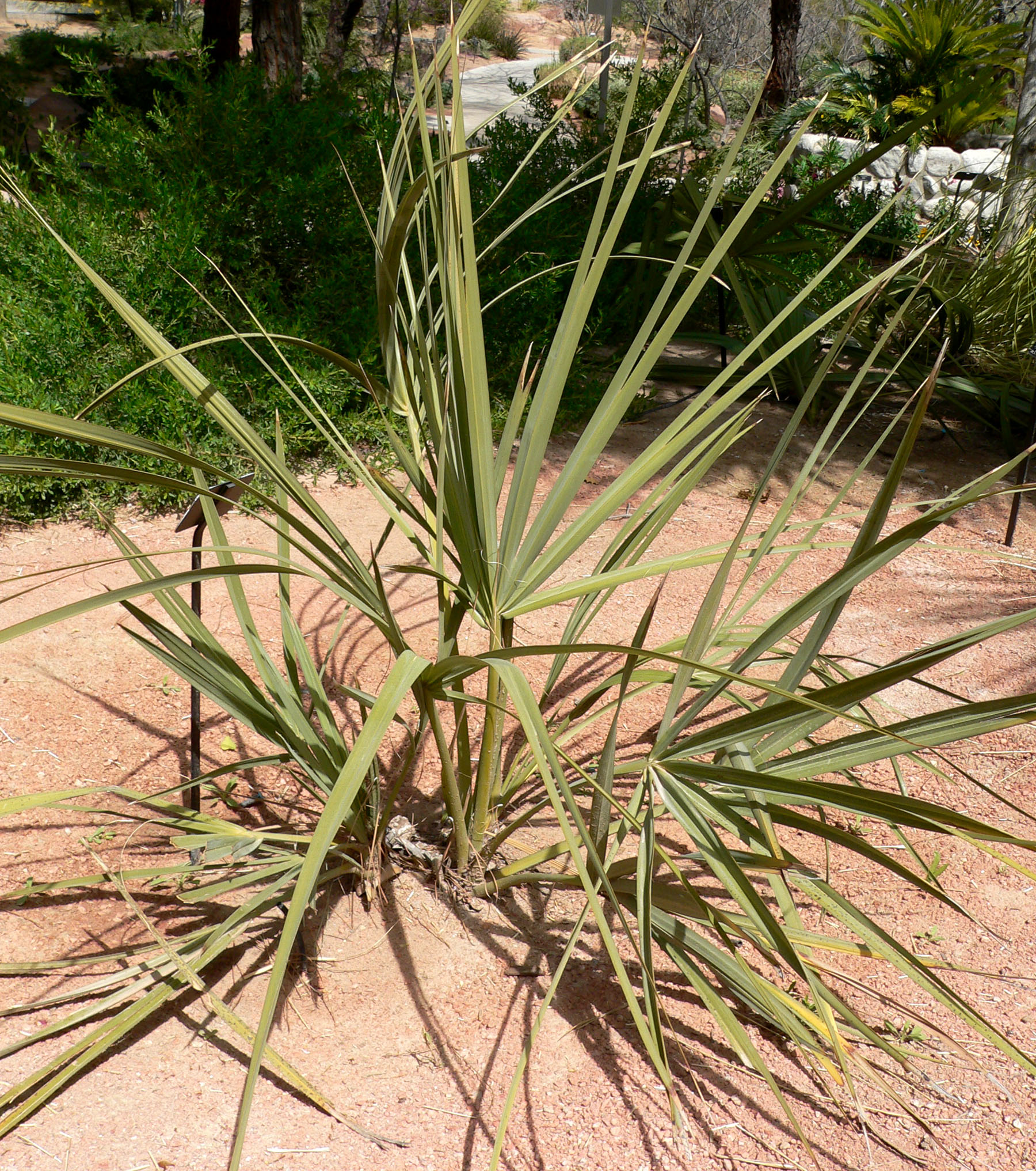 Nannorrhops ritchiana at the Springs Preserve garden, Las Vegas, Nevada